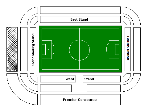 I created this myself using MS Paint on 15 December 2008, specifically for use in the article